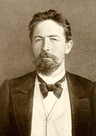 Anton Chekhov in Yalta, 1900